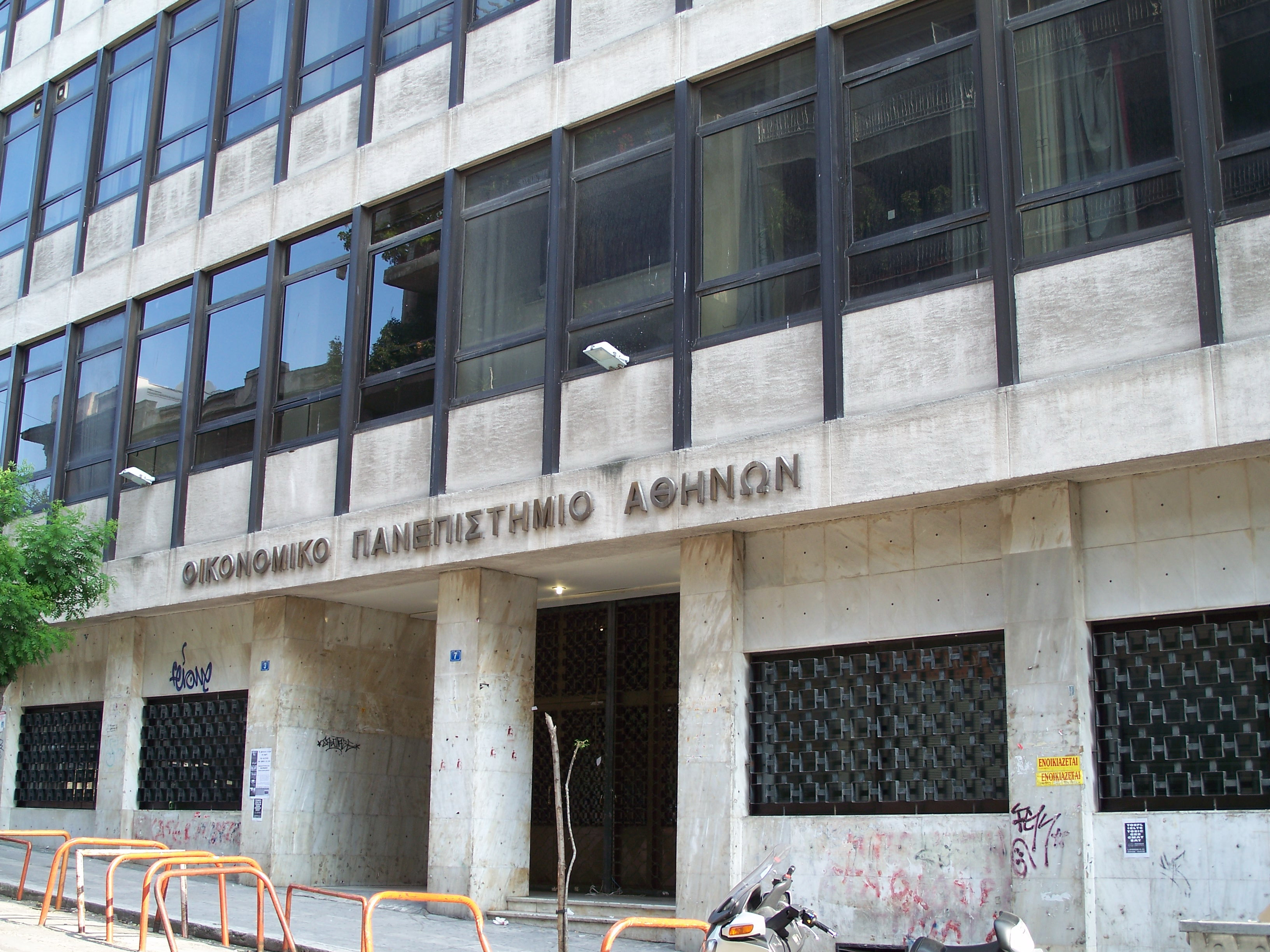 The building of the Economical University of Athens, side entrance, new wing. Located in downtown Athens